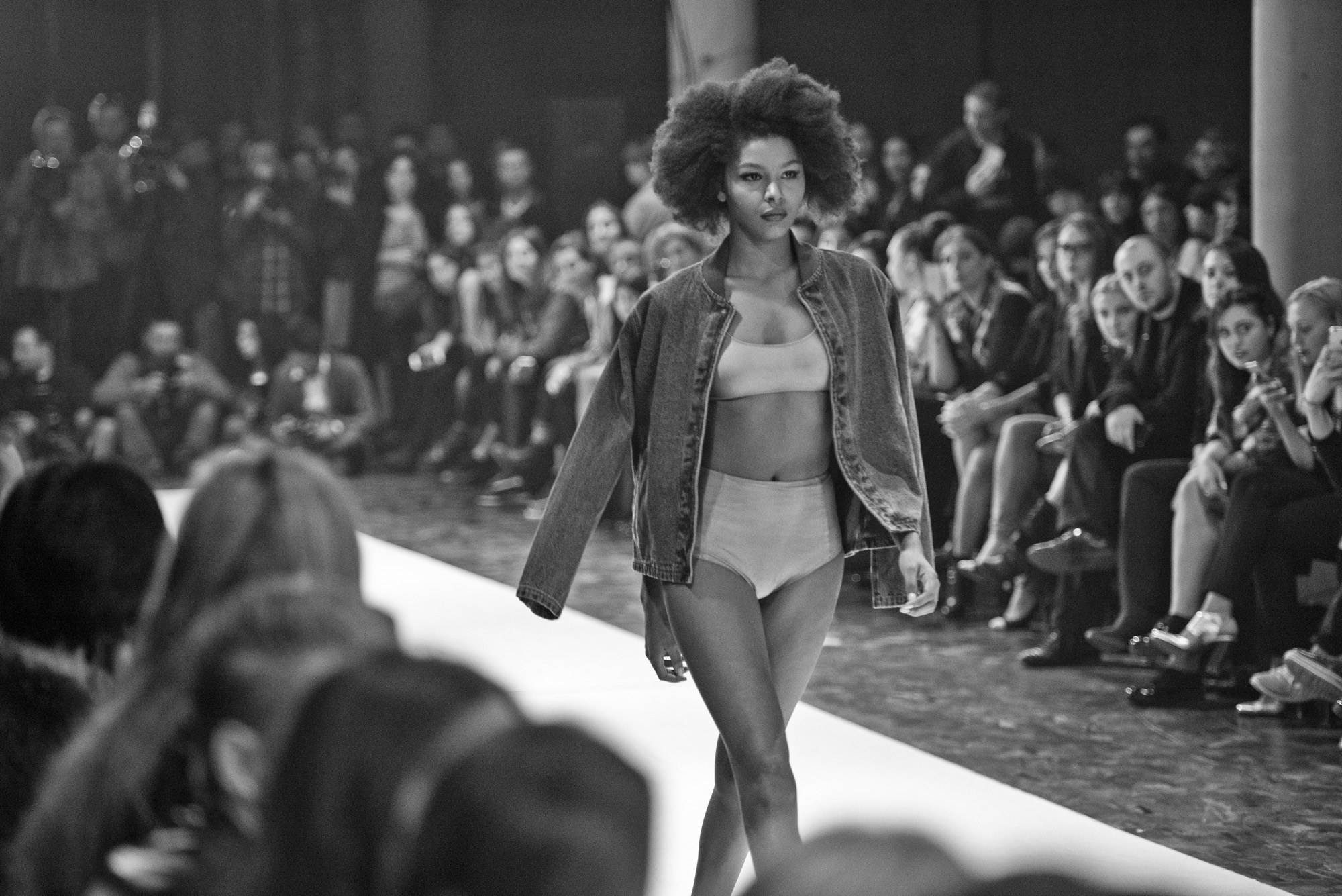 Tbilisi Fashion Week s-s 2016 [Day 3] backstage, 1st row and catwalk